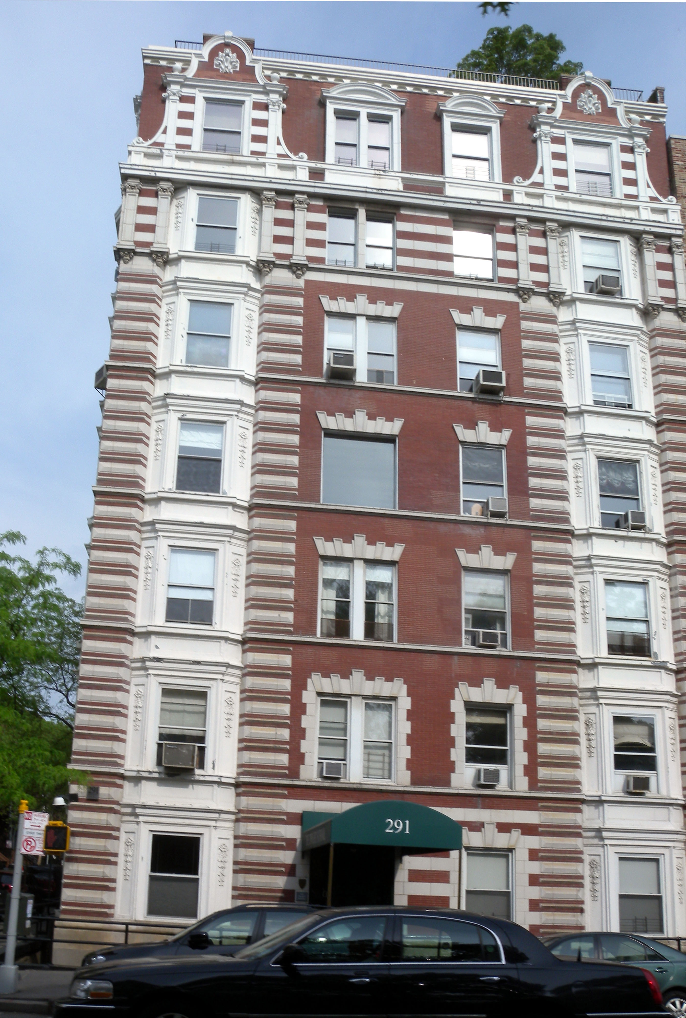 Looking west across CPW at Dwight School on a summer morning.